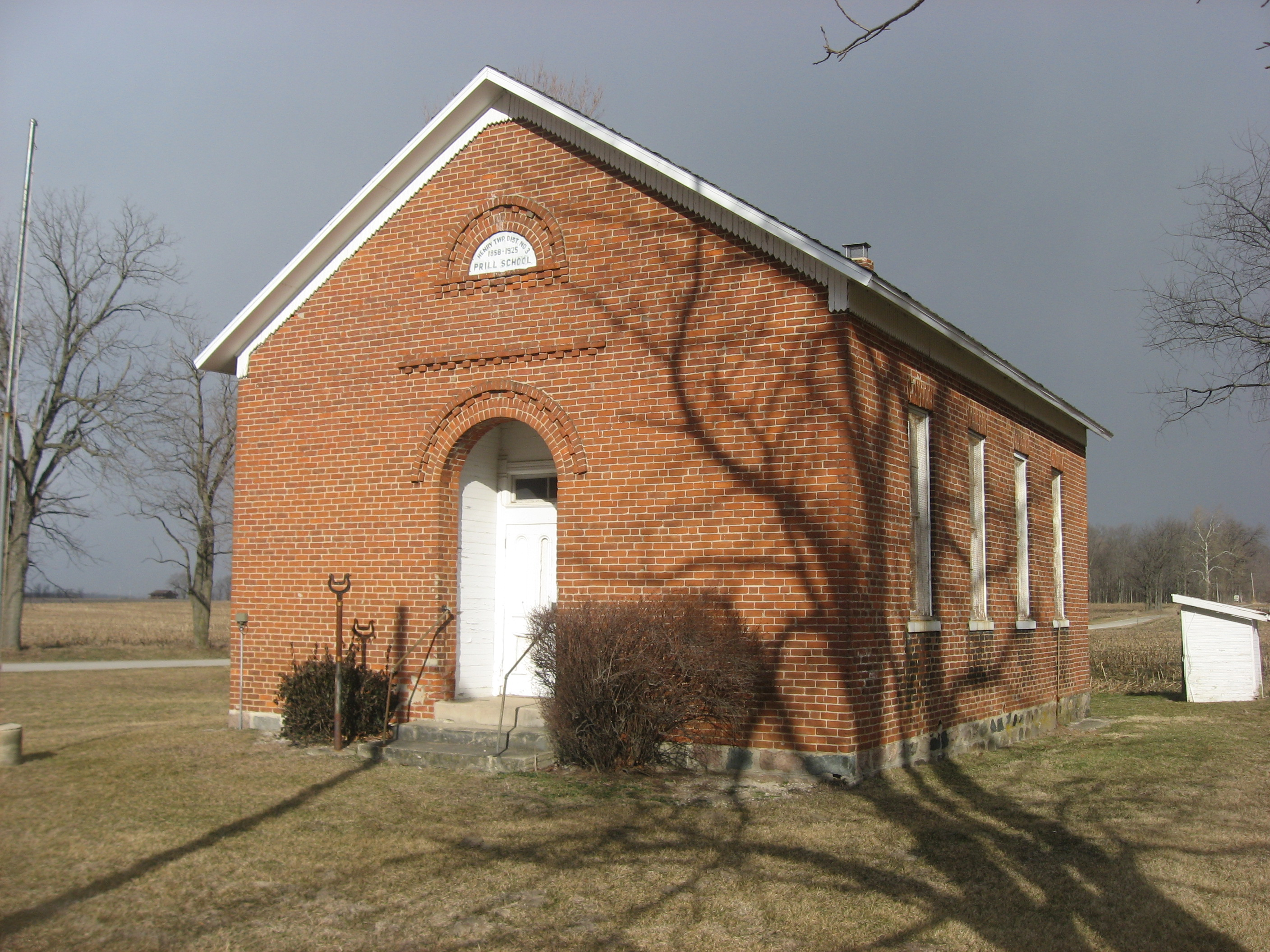 Eastern side and front of the Prill School, located on the northeastern corner of the junction of N700E and E150N northwest of Akron in Henry Township, Fulton County, Indiana, United States. Built in 1876, it is listed on the National Register of Historic Places.